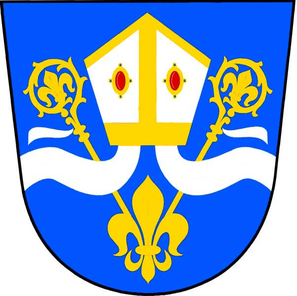 Municipal coat of arms of Klášterní Skalice village, Kolín District, Czech Republic.